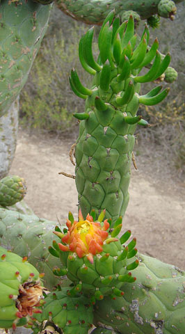 Native to the Peruvian highlands, here at the Quail (now San Diego) Gardens. In context at